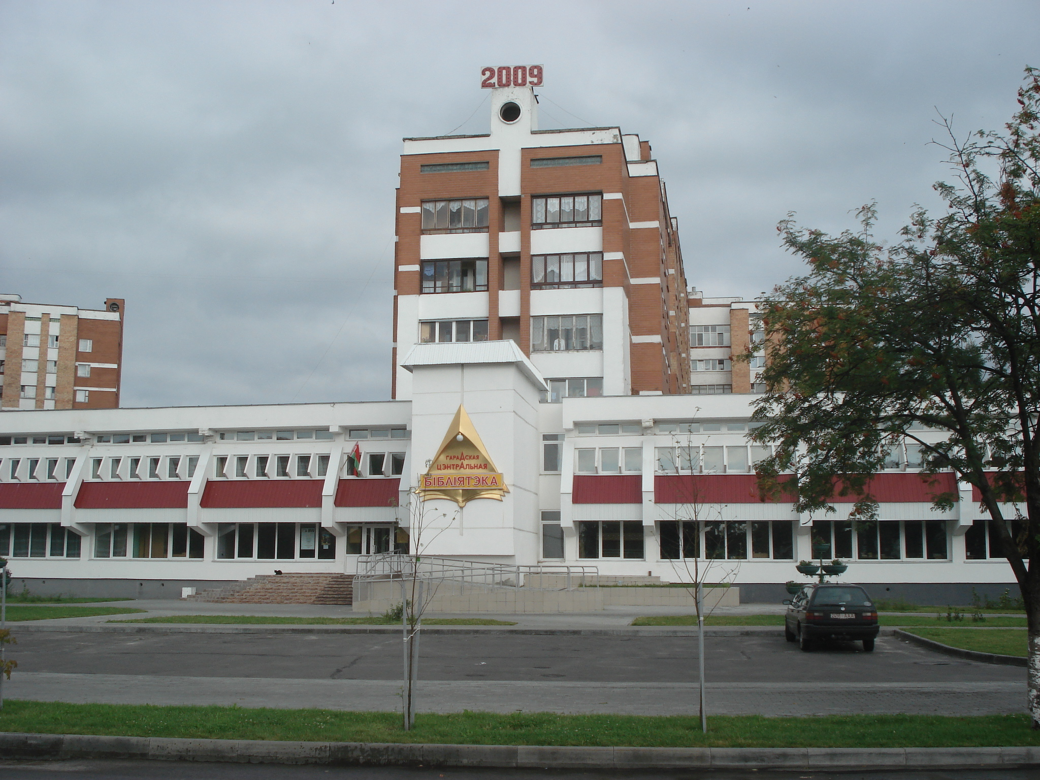 Library, Pinsk